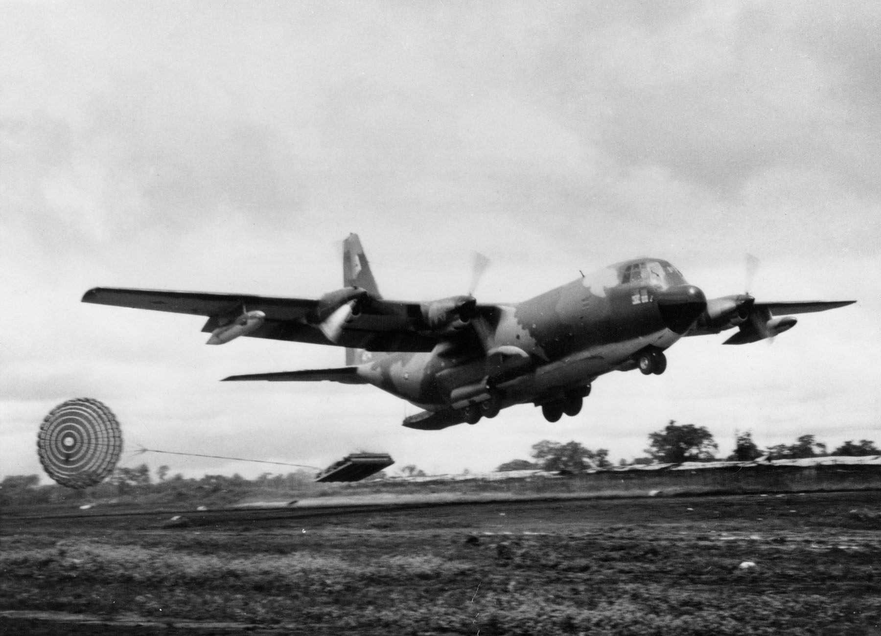 A large parachute extracts a pallet loaded with supplies from the rear of a U.S. Air Force Lockheed C-130 Hercules as it skims the muddy landing strip adjacent to the Du Dop Army Special Forces camp.